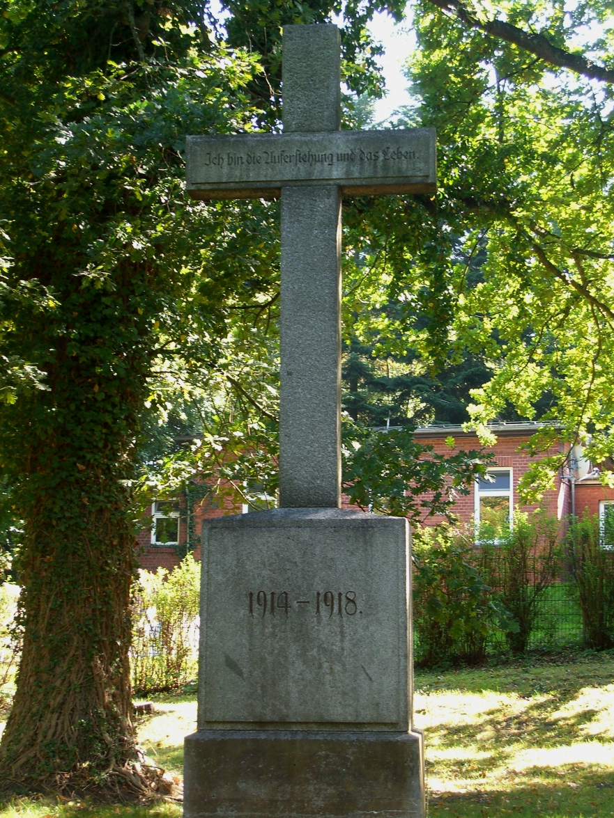 War memorial 1914/18 in Schwerin-Sachsenberg